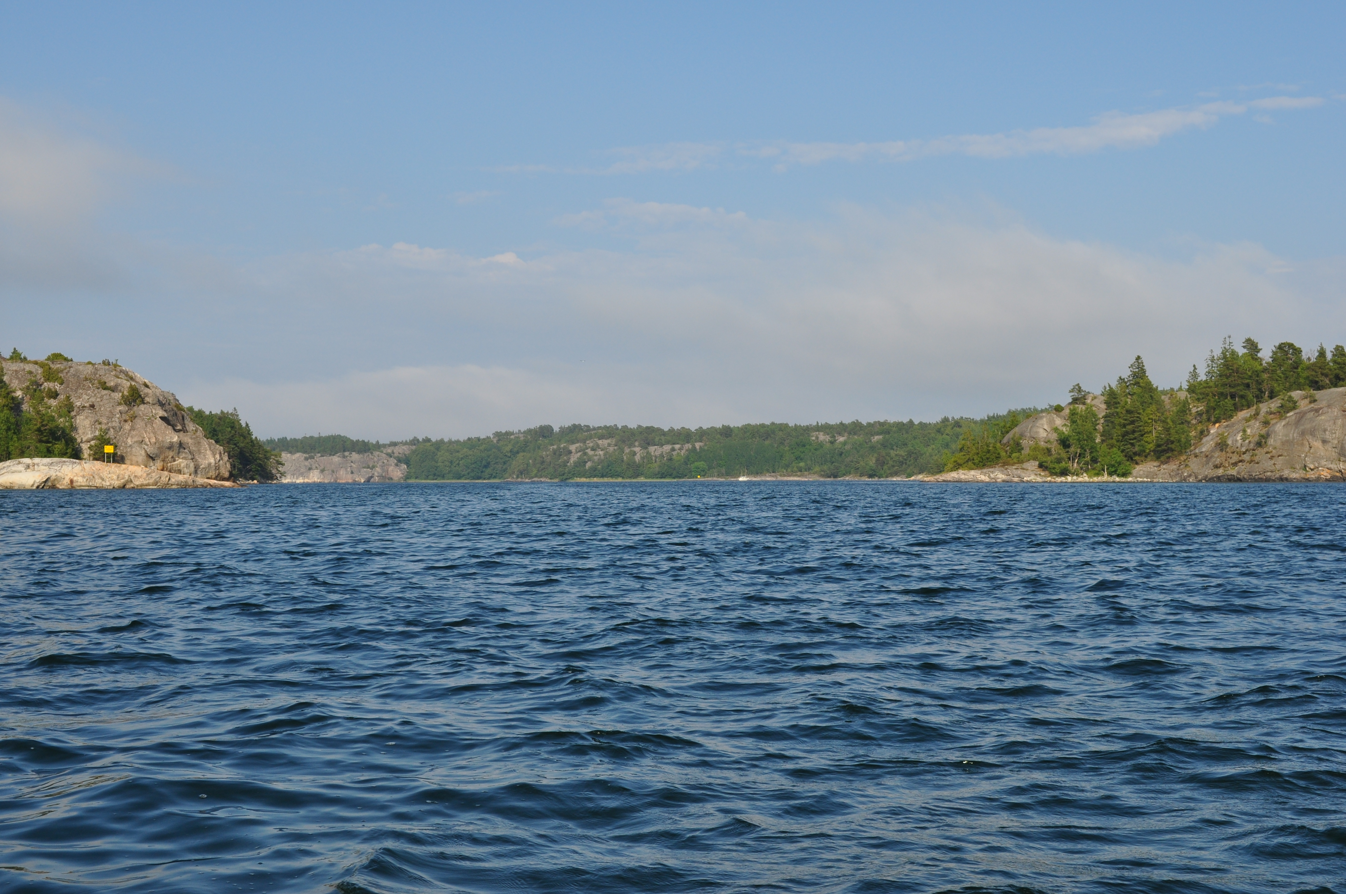 The entrance to the Älvsnabben natural harbor from Fårfjärden. To the left Hundudden on Älvsnabben, to the right Gubbholmen.